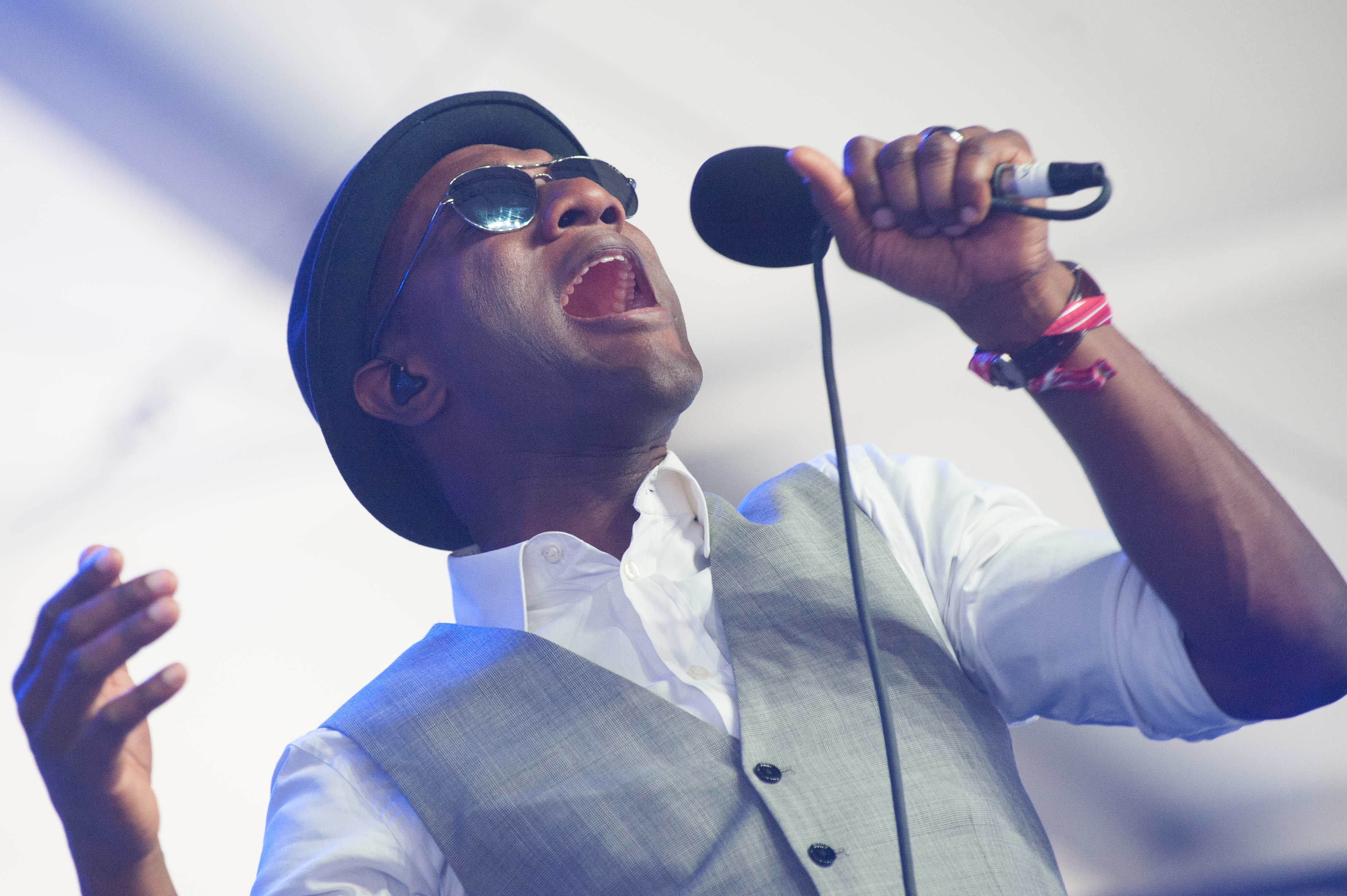 Aloe Blacc performing at the Coachella Valley Music and Arts Festival on April 18, 2014 in Indio, California